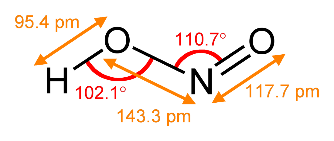 Structural diagram of the trans form of the planar nitrous acid molecule, HONO or HNO2, as determined by gas-phase microwave (rotational) spectroscopy. Dimensions from Greenwood, N. N.; Earnshaw, A. (1997) Chemistry of the Elements (2nd ed.), Oxford:Butterworth-Heinemann, pp. 462 ISBN: 0-7506-3365-4.